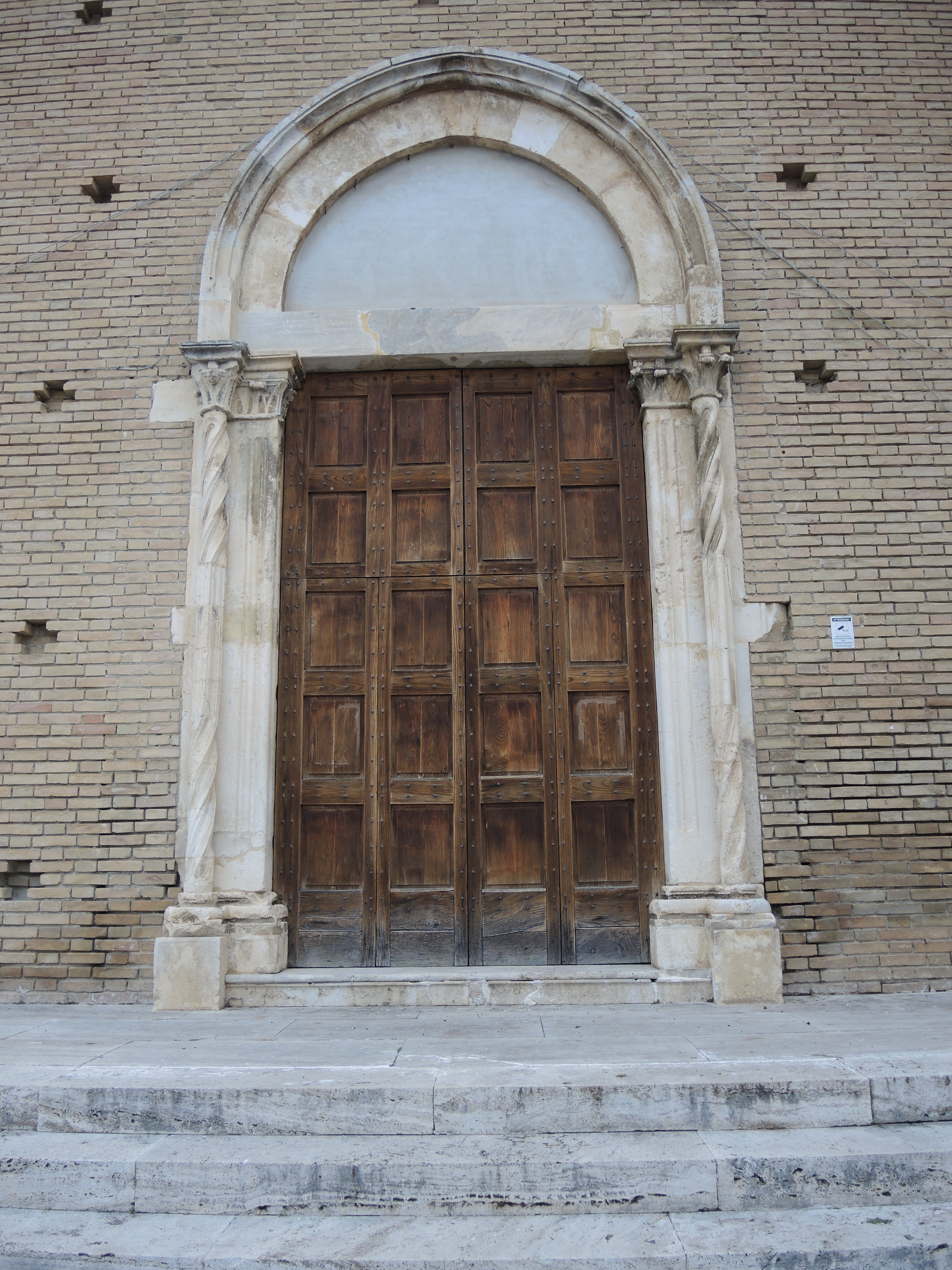 Penne: Duomo di San Massimo